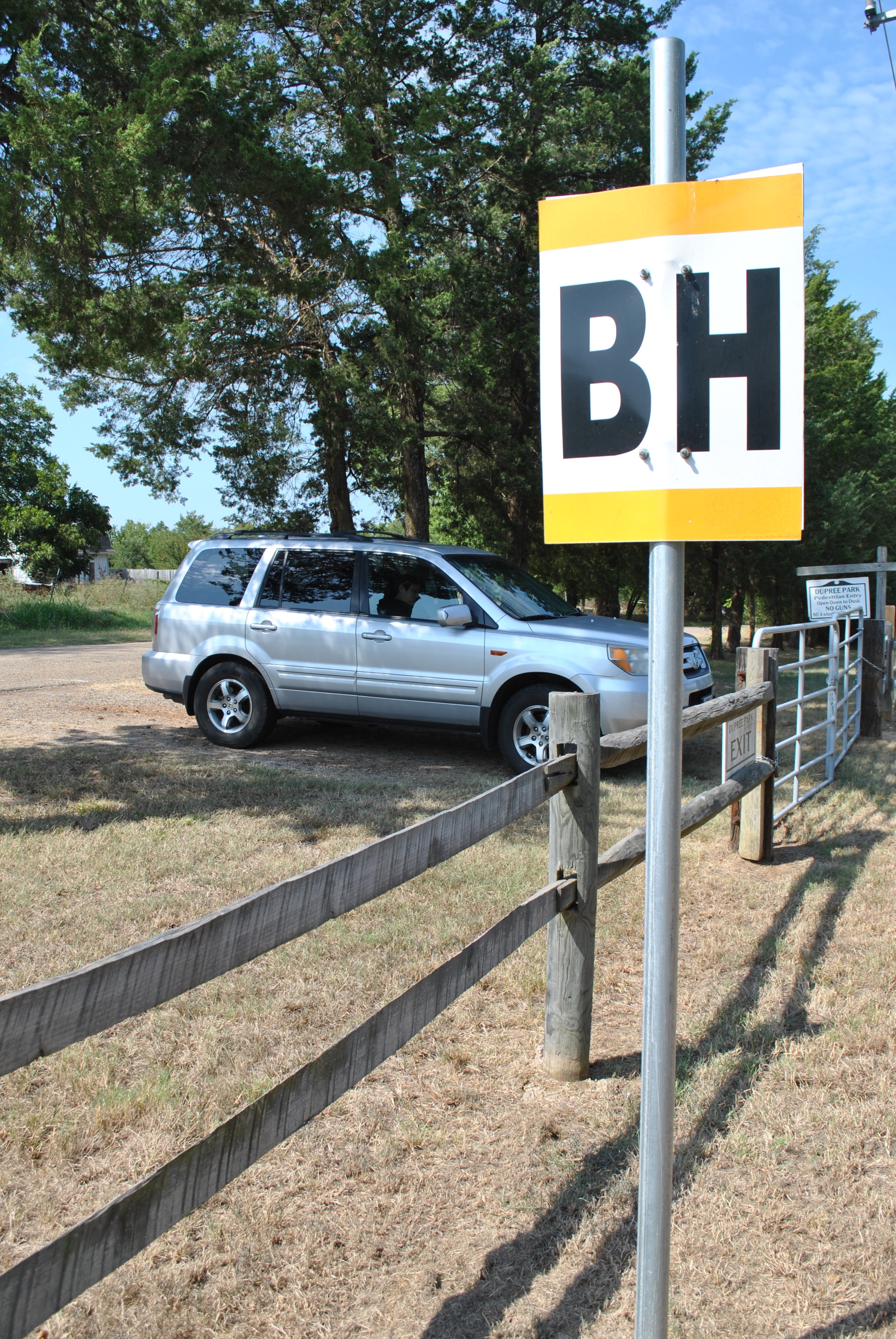 Mount Vernon, Texas, Sept. 7, 2015